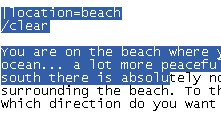 A screenshot of a text document showing selection of text.